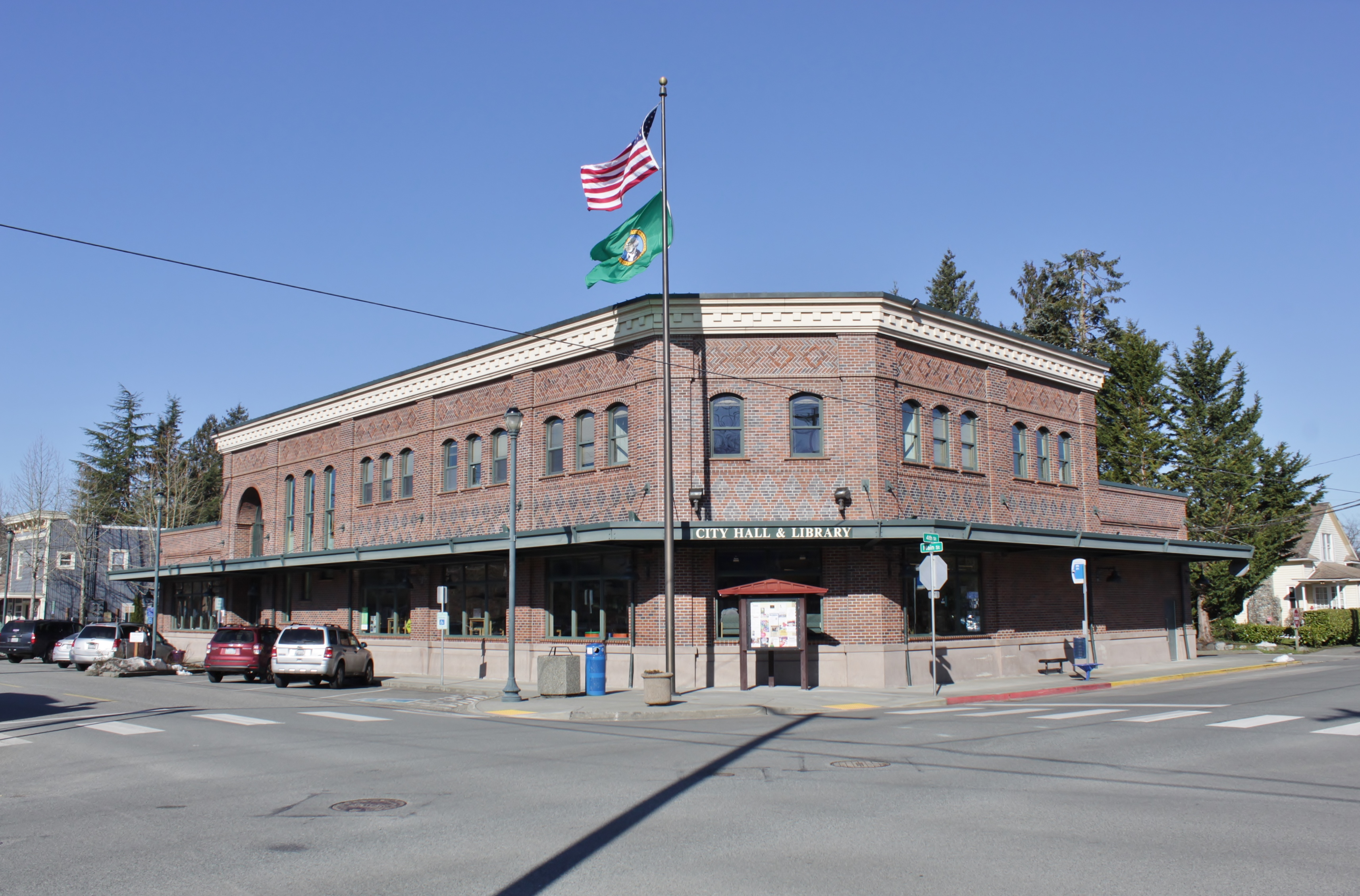 The city hall and public library of Sultan, Washington, United States.